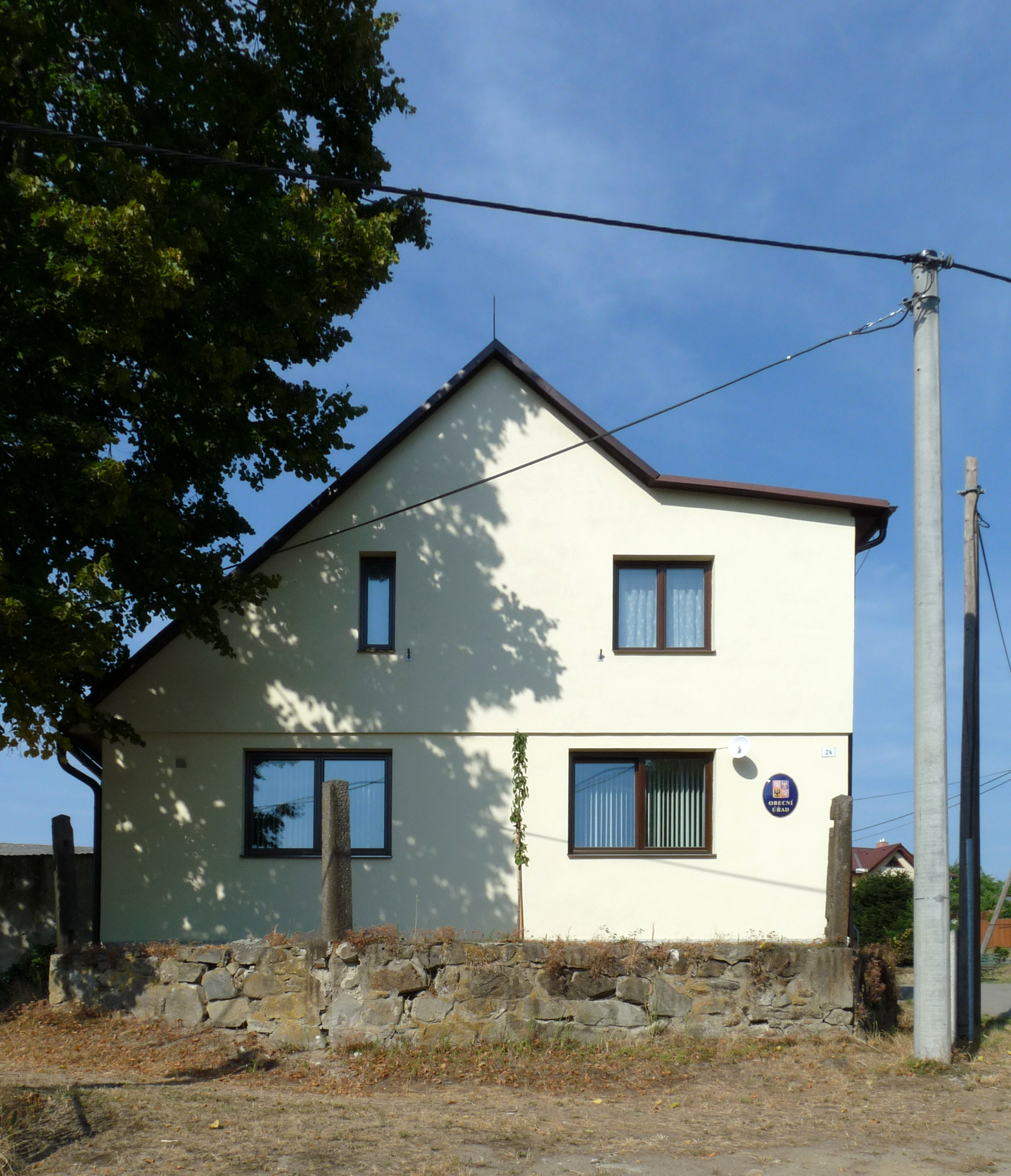 Building No 94, municipal office in the municipality of Puklice, Jihlava District, Vysočina Region, Czech Republic.